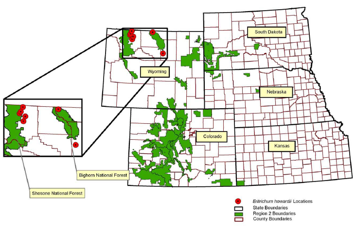 tric map 2